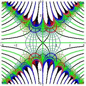 f=exp(-z^2) in the comples z=x+iy plane. Levels of integer values of Re(f) are shown with thick black lines. Level of Im(f)=0 is shown with think green line. Negative integer values of Im(f) are shown with thick red lines. Positive integer values of Im(f) are shown with thick blue lines. Intermediate levels of Im(f)=const are shown with thin green lines. Intermediate levels of Re(f)=const are shown with thin red lines for negative values and with thin blue lines for positive values.